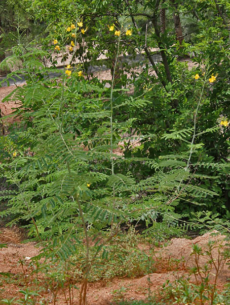 Dwarf Poinciana Caesalpinia pulcherrima in Hyderabad , India.